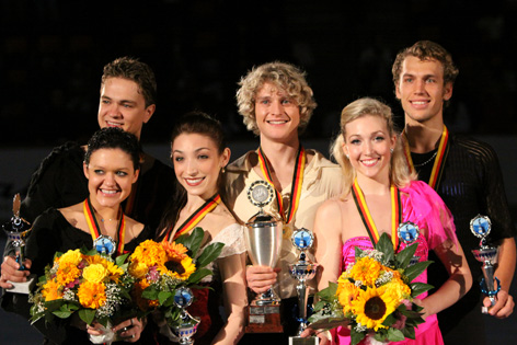 Alexandra ZARETSKI & Roman ZARETSKI (ISR-2), Meryl DAVIS & Charlie WHITE (USA-1), Katherine COPELY & Deividas STAGNIUNAS (LTU-3) at the 2009 Nebelhorn Trophy.